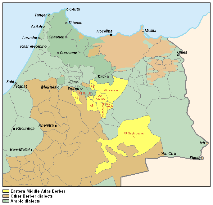 Eastern Middle Atlas Berber speaking areas/tribes - Own made map derived from File:Carthe ethnolinguistique - Nord et Est du Maroc.PNG